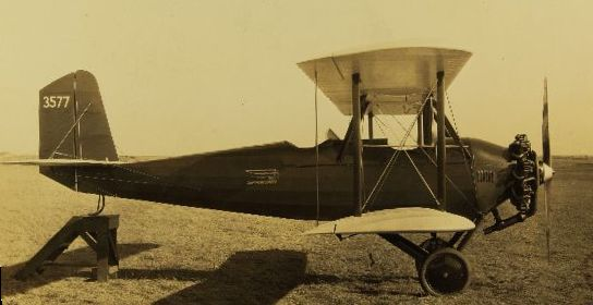 Catalog #: 00071207 Manufacturer: Standard Designation: JR-1B